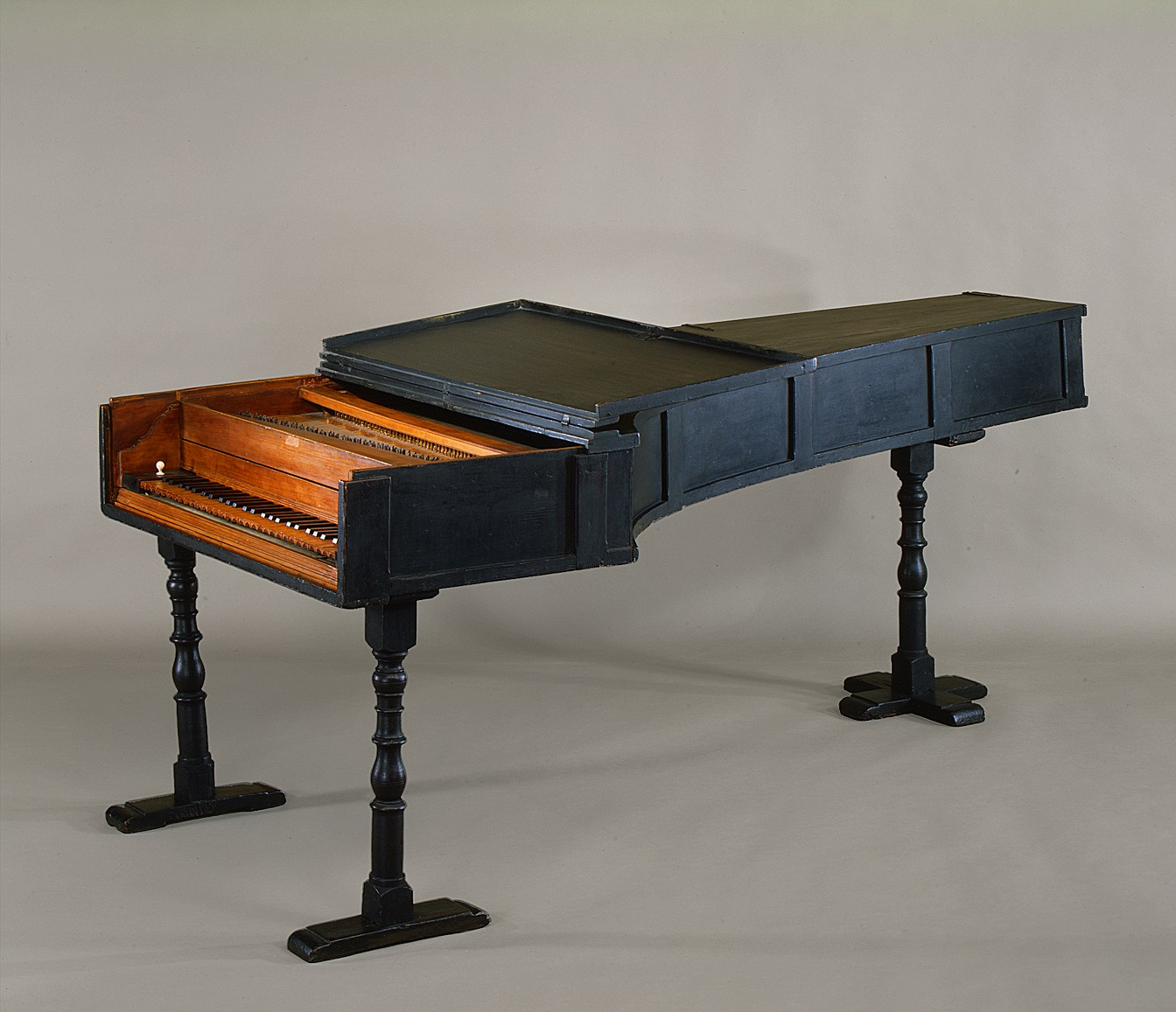 Italian (Florence); Grand Piano; Chordophone-Zither-struck-piano